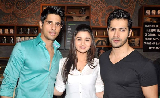 Sidharth Malhotra, Alia Bhatt and Varun Dhawan at the opening of Starbucks Coffee Shop.